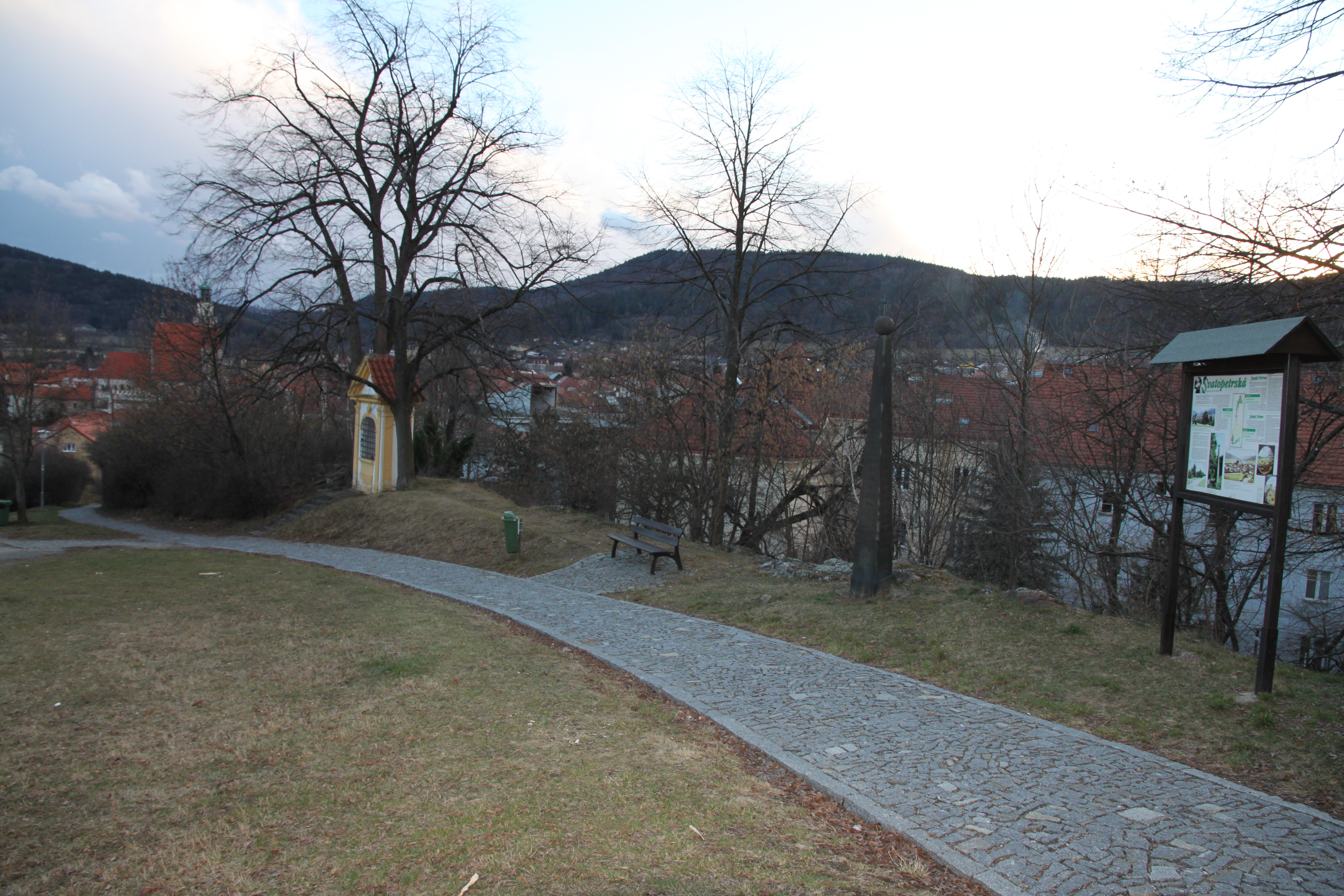 Educational trail Svatopetrská stezka, stop No 2. Prachatice, South Bohemian Region, Czechia.